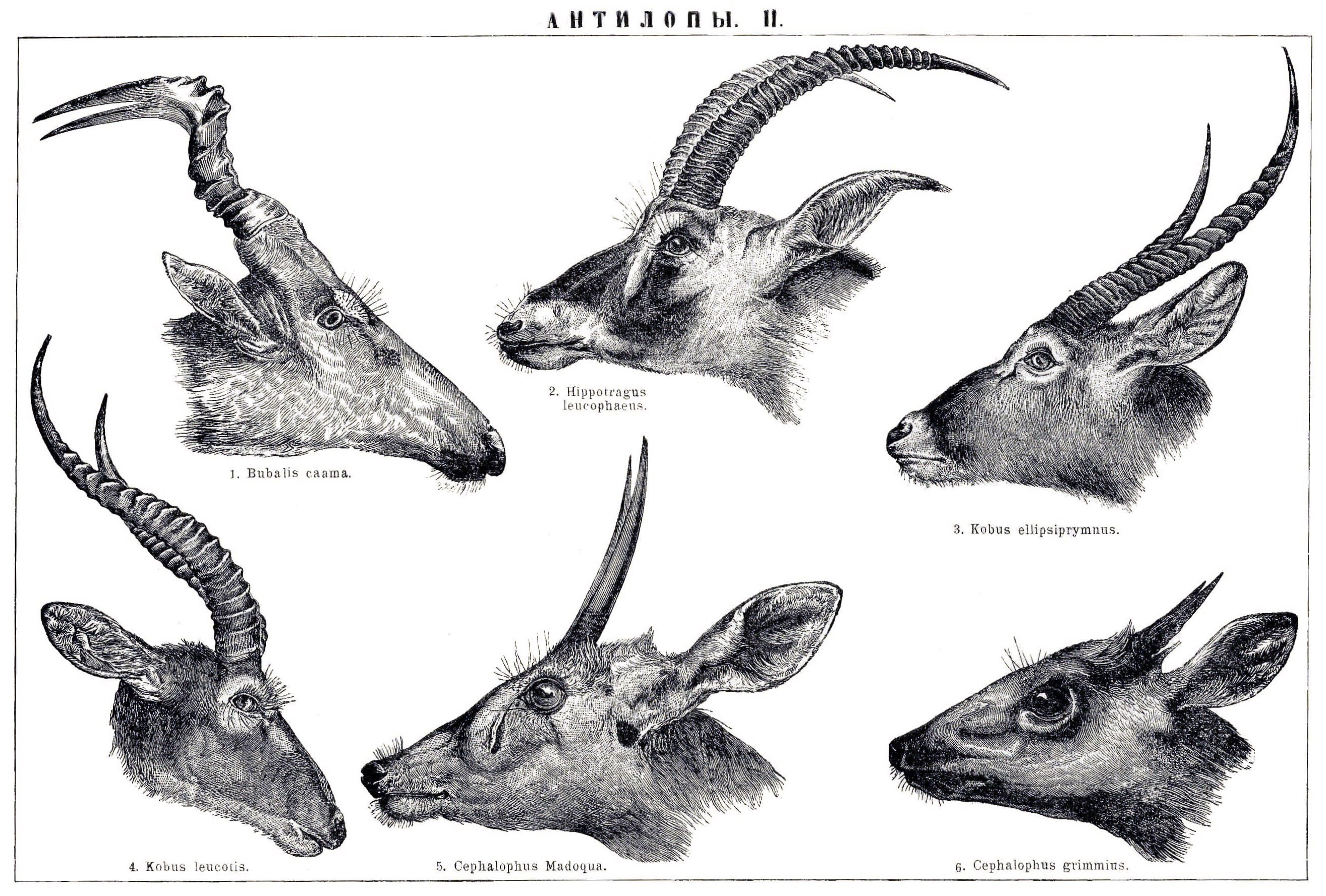 Antelopes. Illustration from Brockhaus and Efron Encyclopedic Dictionary (1890—1907). Based on the facial markings, 2., labelled as Hippotragus leucophaeus here, is likely a roan antelope (H. equinus), which was synonymised wih the former in the 19th century.